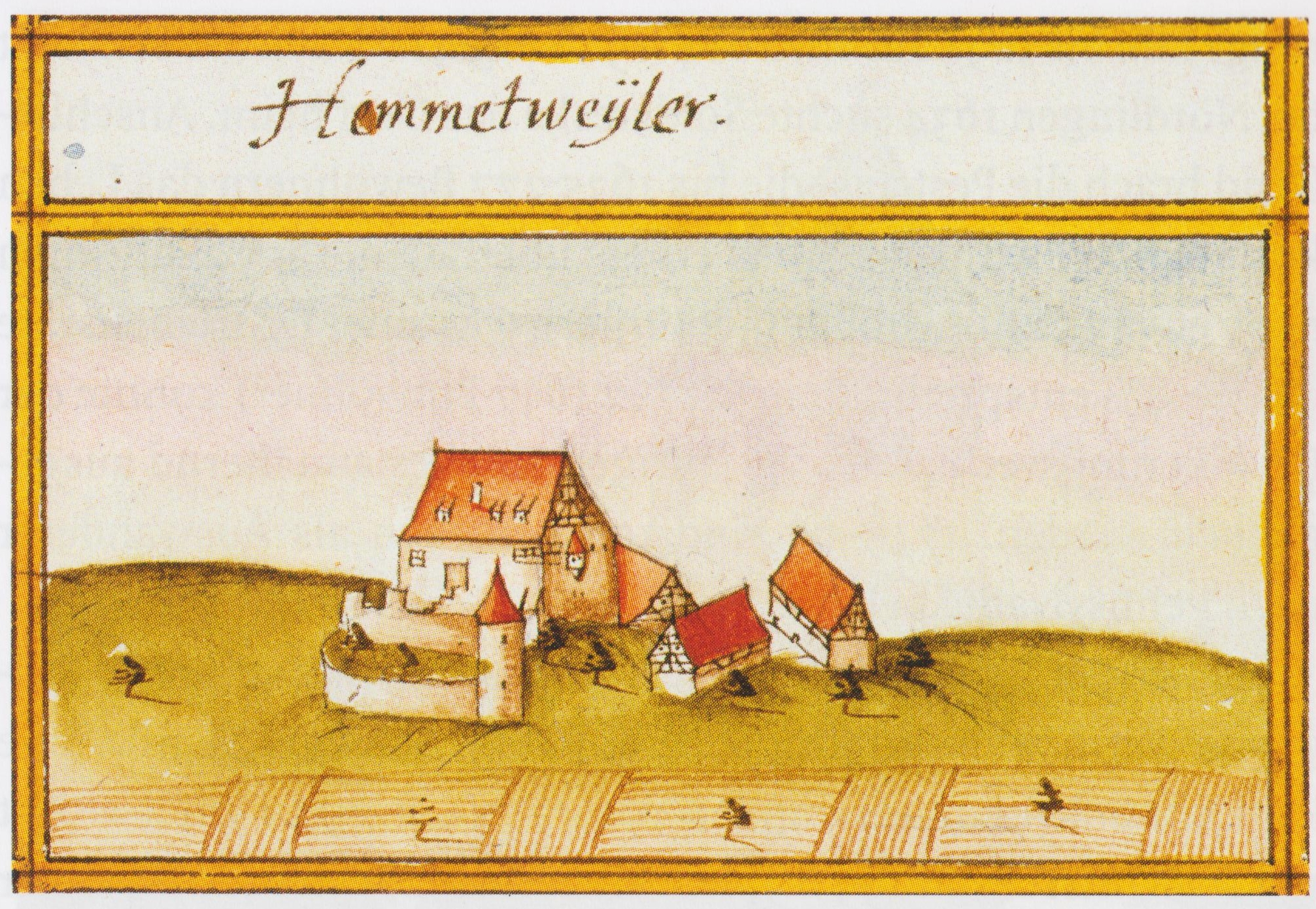 Historical map of Hammetweil, part of Neckartenzlingen in Baden-Württemberg, Germany 1683/1685